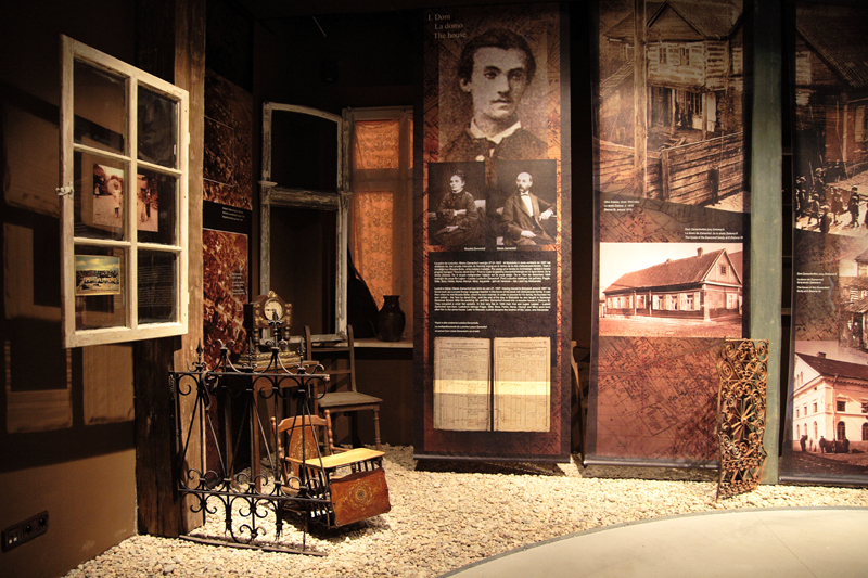 Exposition "Białystok of young Zamenhof" in The Ludwik Zamenhof Centre in Białystok